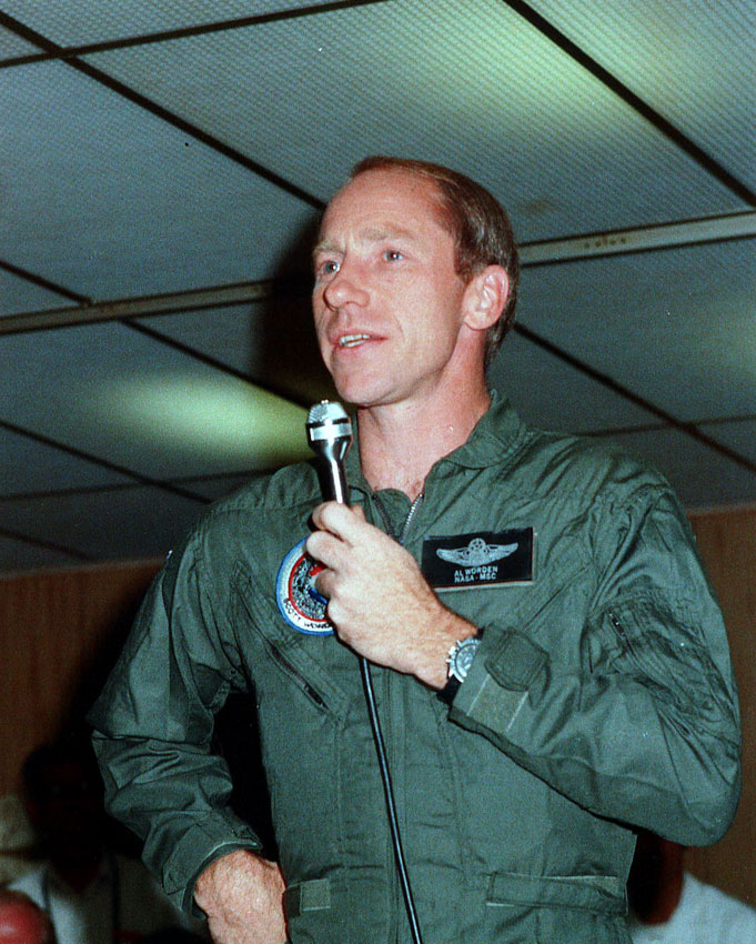 Al Worden speaking prior to dinner on the recovery carrier USS Okinawa